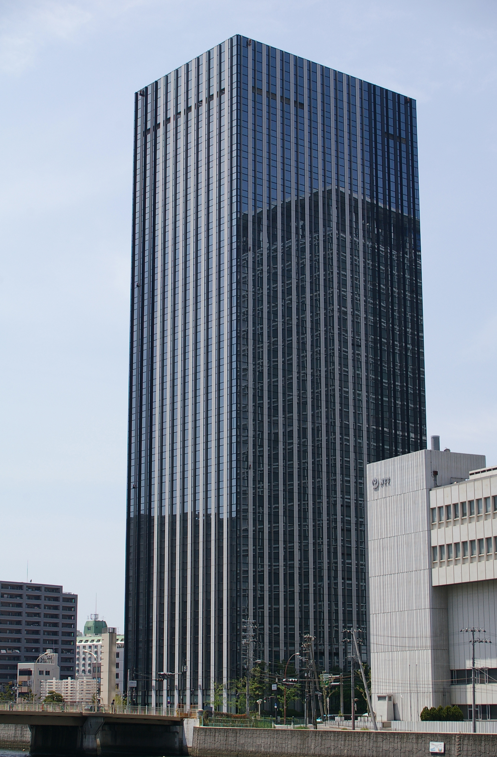 Photograph of Osaka Nakanoshima National Government Building, including Osaka High Public Prosecutors Office and Osaka District Public Prosecutors Office, in Fukushima-ku, Osaka, Osaka Prefecture, Japan.